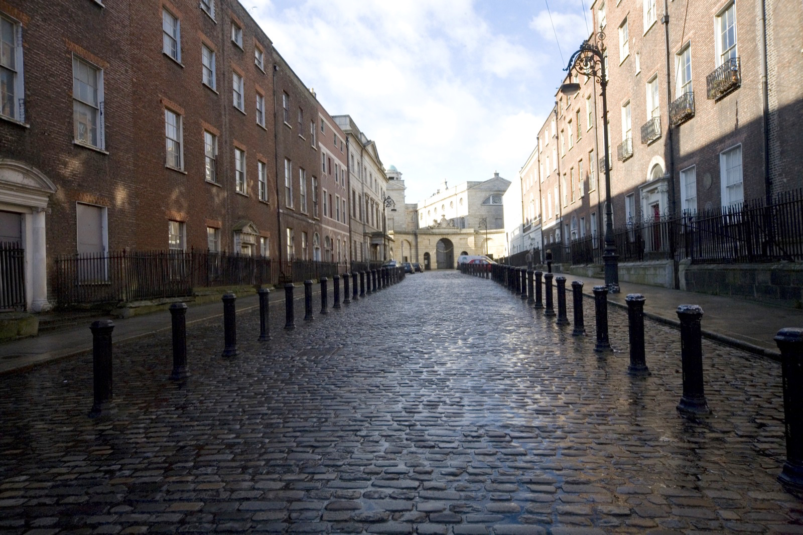 Henrietta Street dates from the 1720s and was laid out by Luke Gardiner as his first venture. Gardiner, more than any other individual was responsible for turning Dublin into an elegant Georgian city. Named after Henrietta, Duchess of Grafton it is a dead-end terminated by the Law Society?s Kings Inns and was designed an as enclave of prestigious houses. The street is still cobbled but many of the fine houses are now in disrepair. In the mid 1700s, the street was inhabited by five peers, a peeress, a peer's son, a judge, a member of parliament, a Bishop and two wealthy clergymen as well as Luke Gardiner himself. At the top end of the street next to the Kings Inns is the Law Library designed by Frederick Darley in 1827. This replaced three of the oldest houses on the street. A proposal by Abercrombie for a National Cathedral in this area would have meant the demolition of the street with the Kings Inns forming one side of a large piazza.